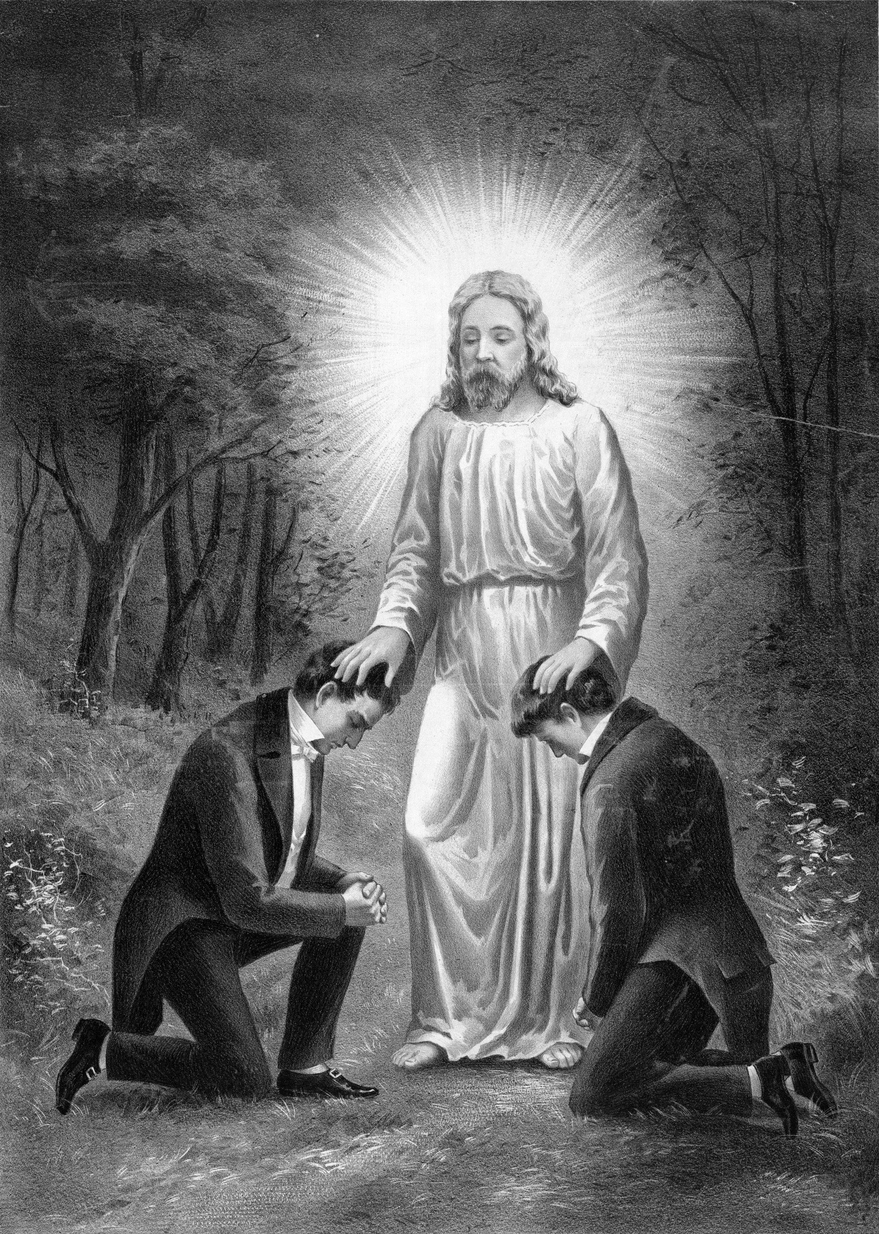 "The youthful prophet, Joseph Smith, Jr., and Oliver Cowdery, receiving the Aaronic priesthood under the hands of John the Baptist, May 15, 1829"